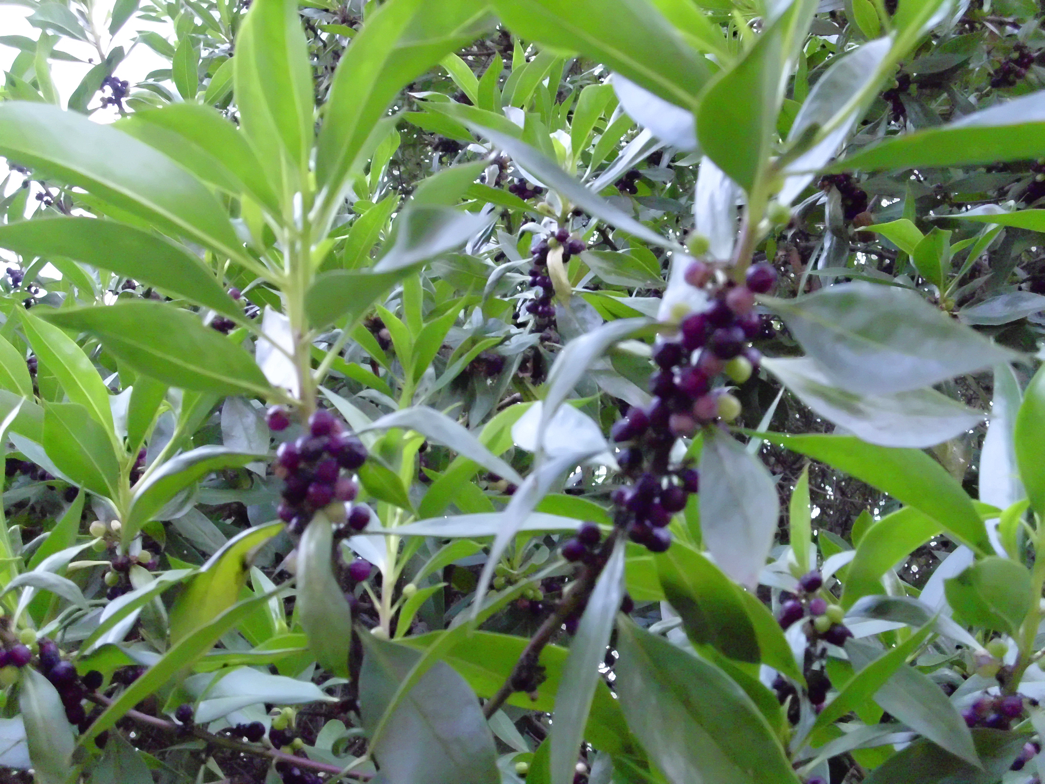 Daphne laureola fruits close up, Torrelamata, Torrevieja, Alicante, Spain